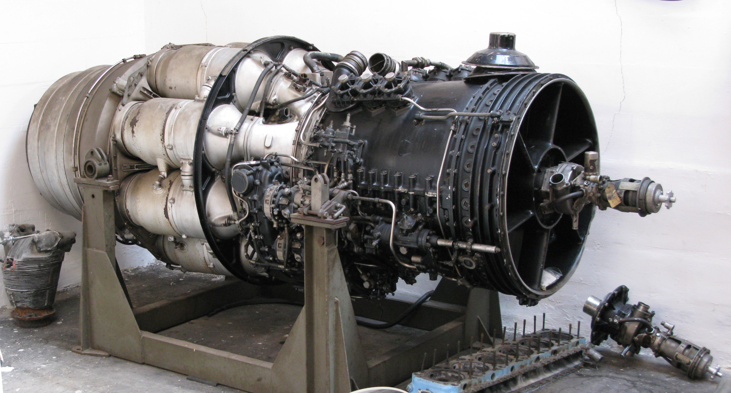 Rolls-Royce Avon Mk 101C